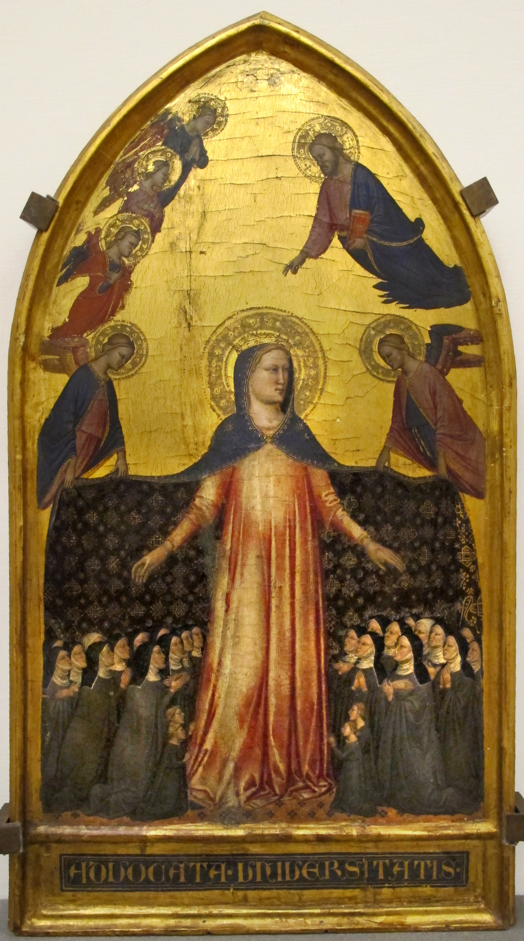 Maestro della Misericordia